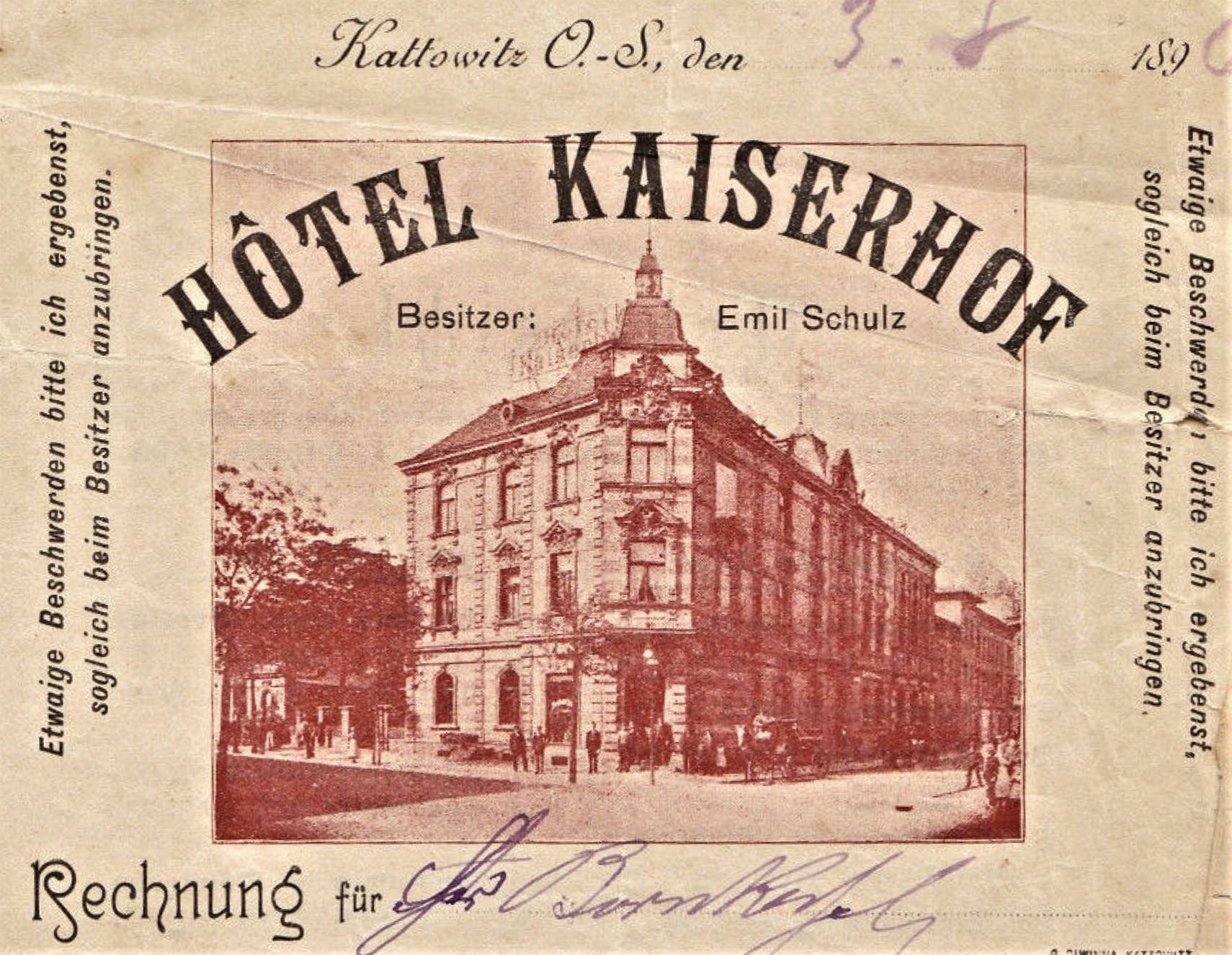 Reklama hotelu Kaiserhof w Katowicach z 1896 roku - firmówka